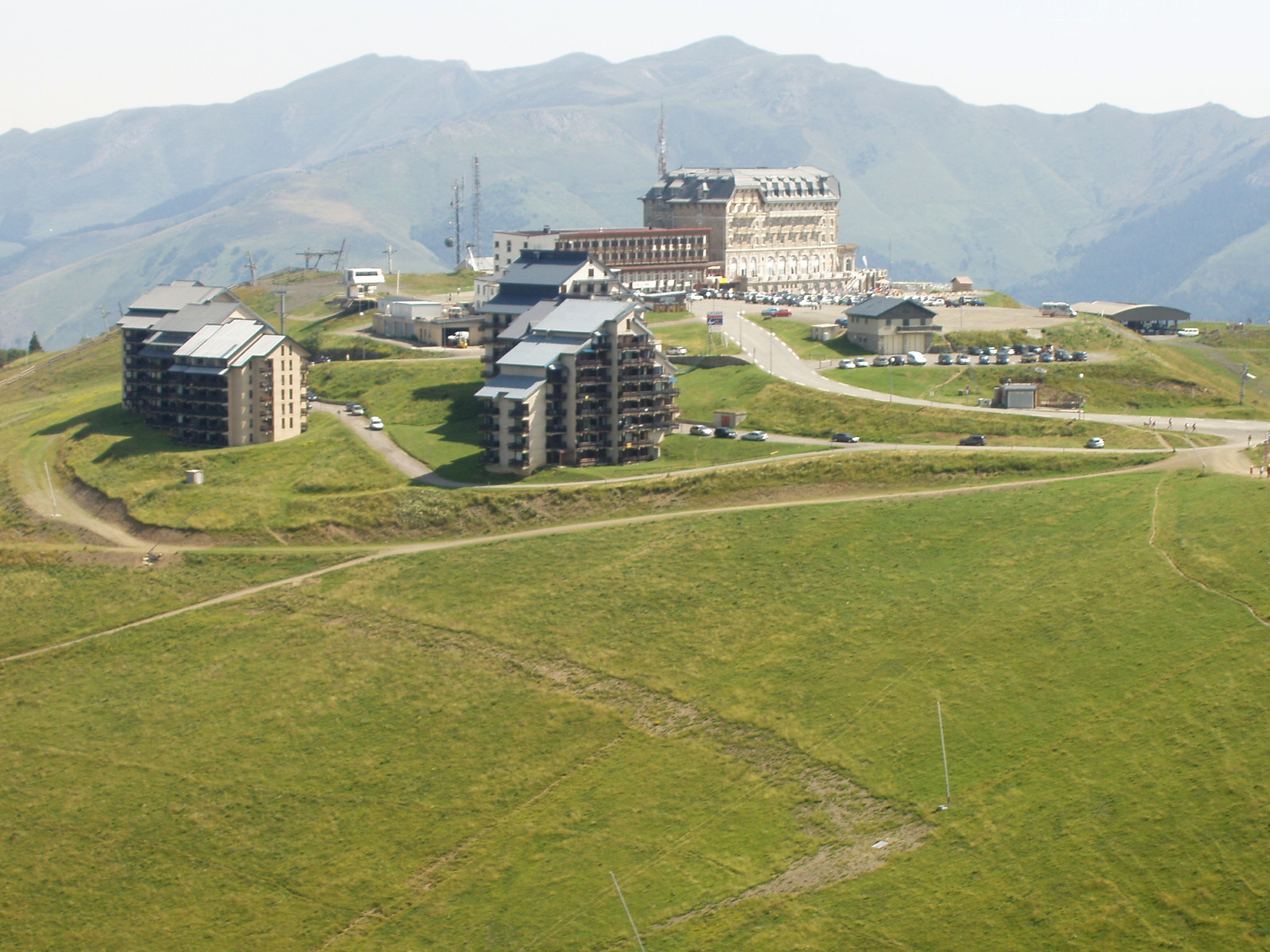 Saint-Aventin (Haute-Garonne, Midi-Pyrénées, France) : Luchon-Superbagnères ski resort.